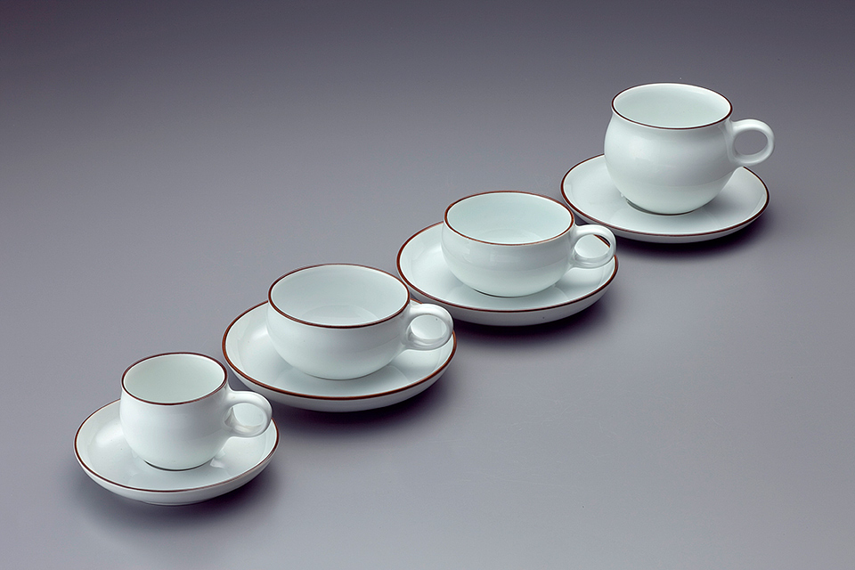 from the left : G-type Demitasse / G-type Coffee Cup / G-type Tea Cup / G-type Morning Cup (1969), Masahiro Mori (ceramic designer) designed